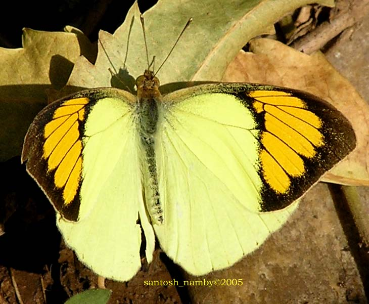 Santosh Namby Chandran Taken at Chittorgarh Fort, Rajasthan. User:Santosh_namby